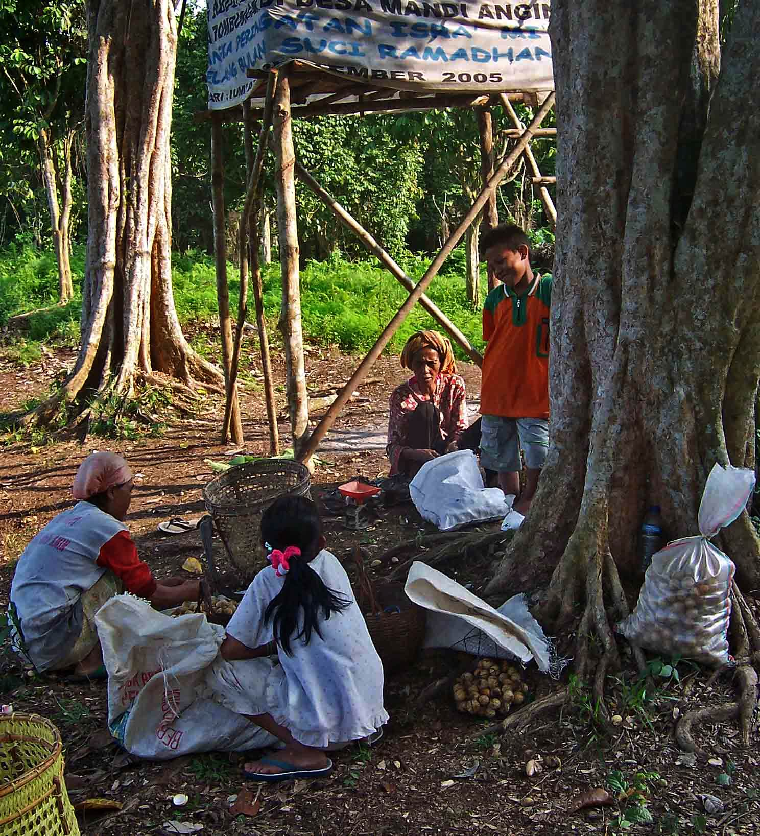 Sorting duku, Lansium domesticum fruit under their trees. From Mandi Angin, Rawas Ilir, Kabupaten Musi Rawas, South Sumatra, Indonesia.